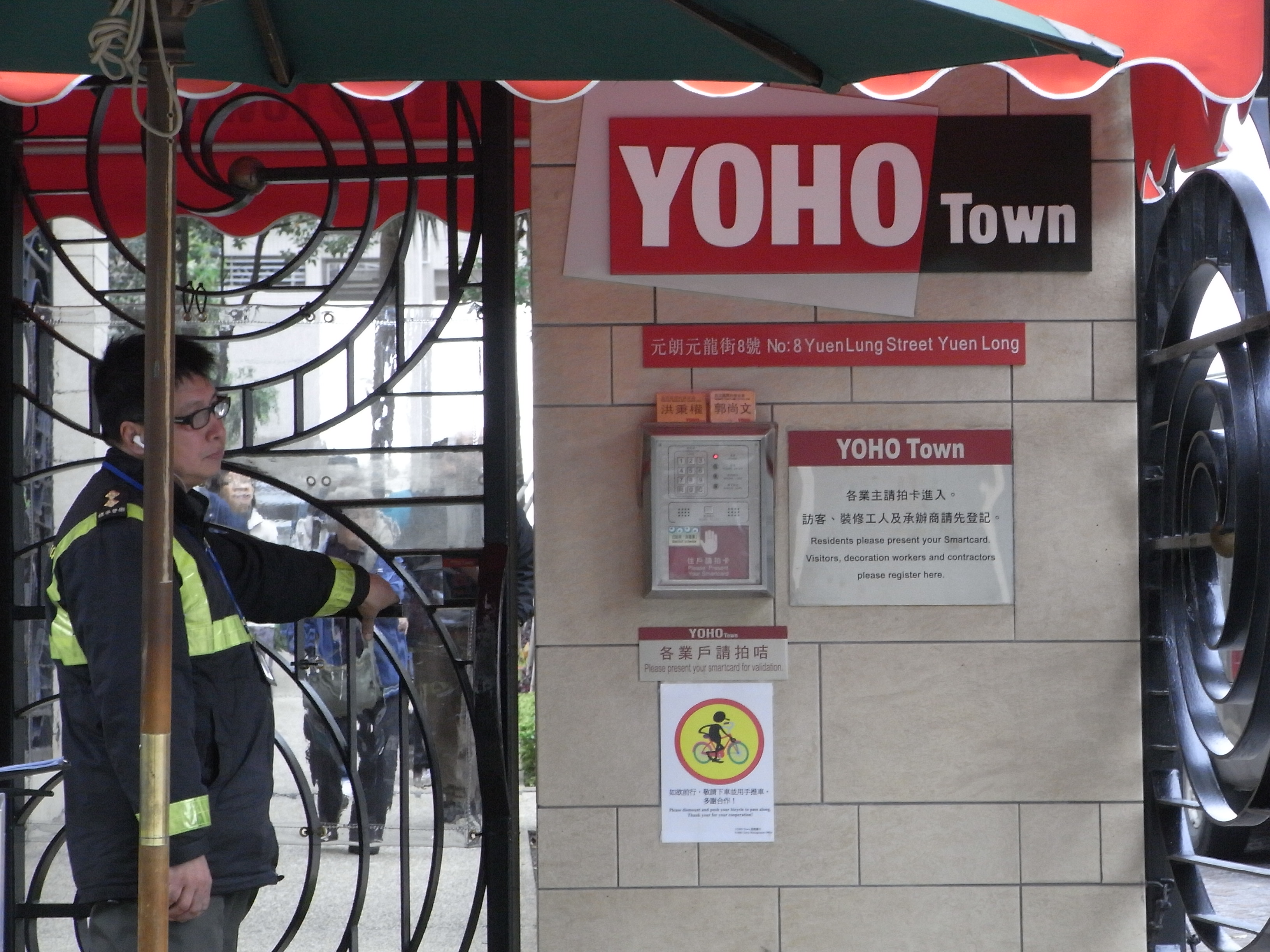 元朗 元朗新時代廣場